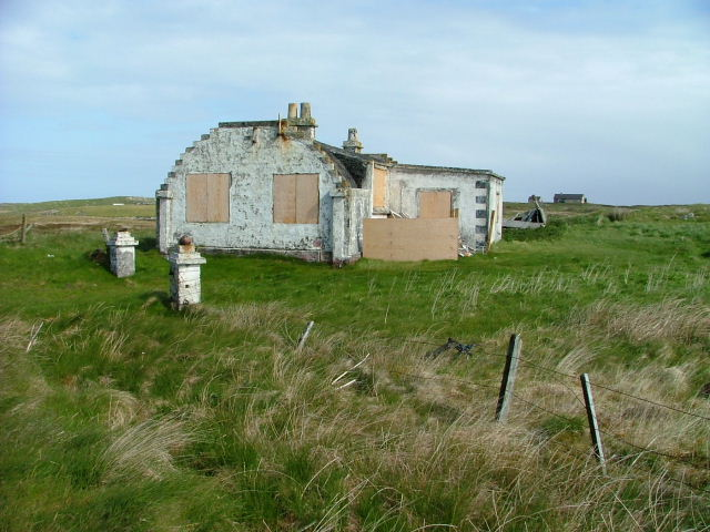 "Odd Looking Building Looks like it may have been a Chapel or Church" (Unlikely in uploader's view!) Please note that this is Grimsay, South East Benbecula - there is more than one Grimsay in this archipelago (Outer Hebrides, Scotland).